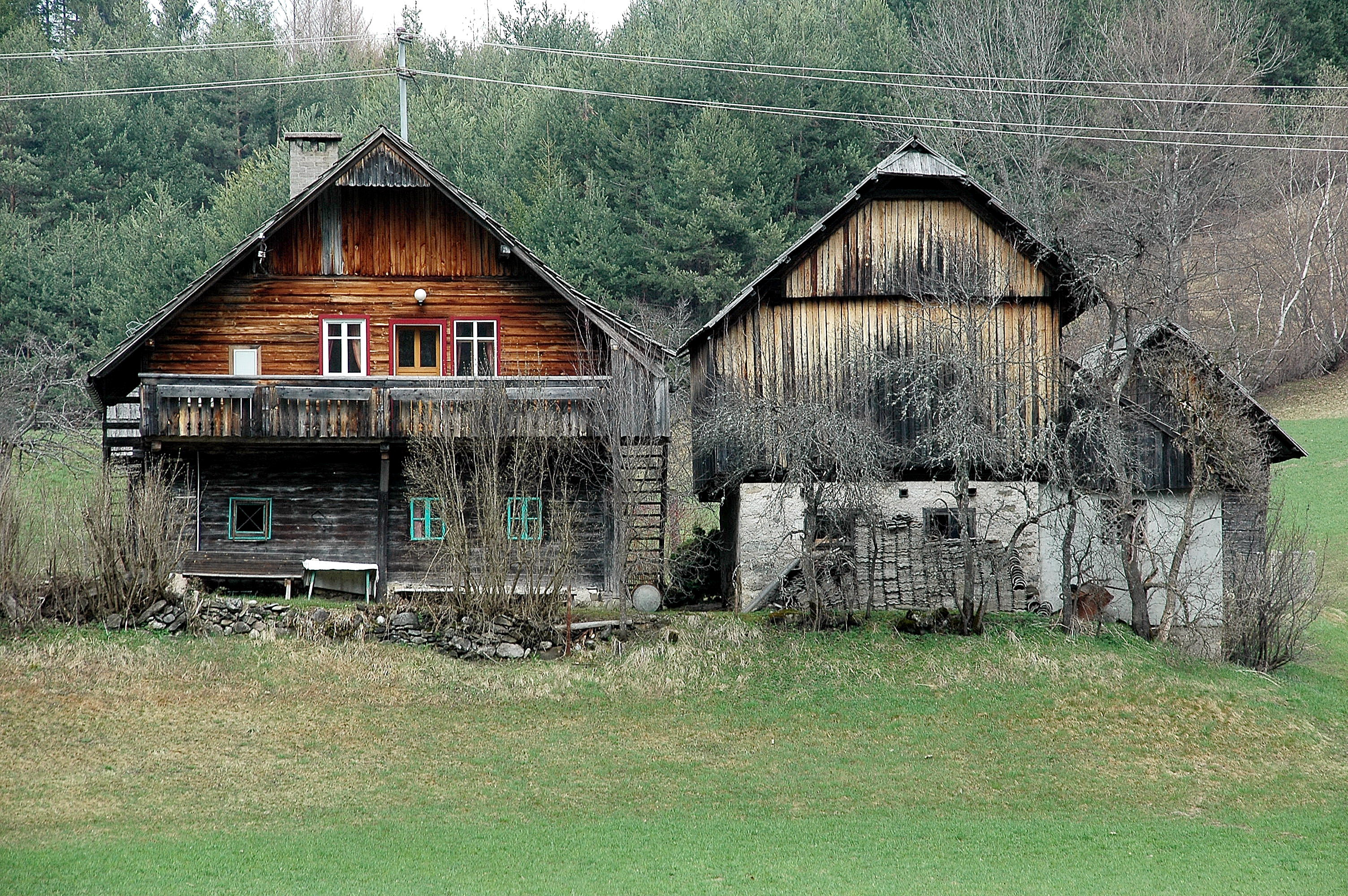 Traditional homestead in Rubland, market town Paternion, district Villach Land, Carinthia, Austria, EU